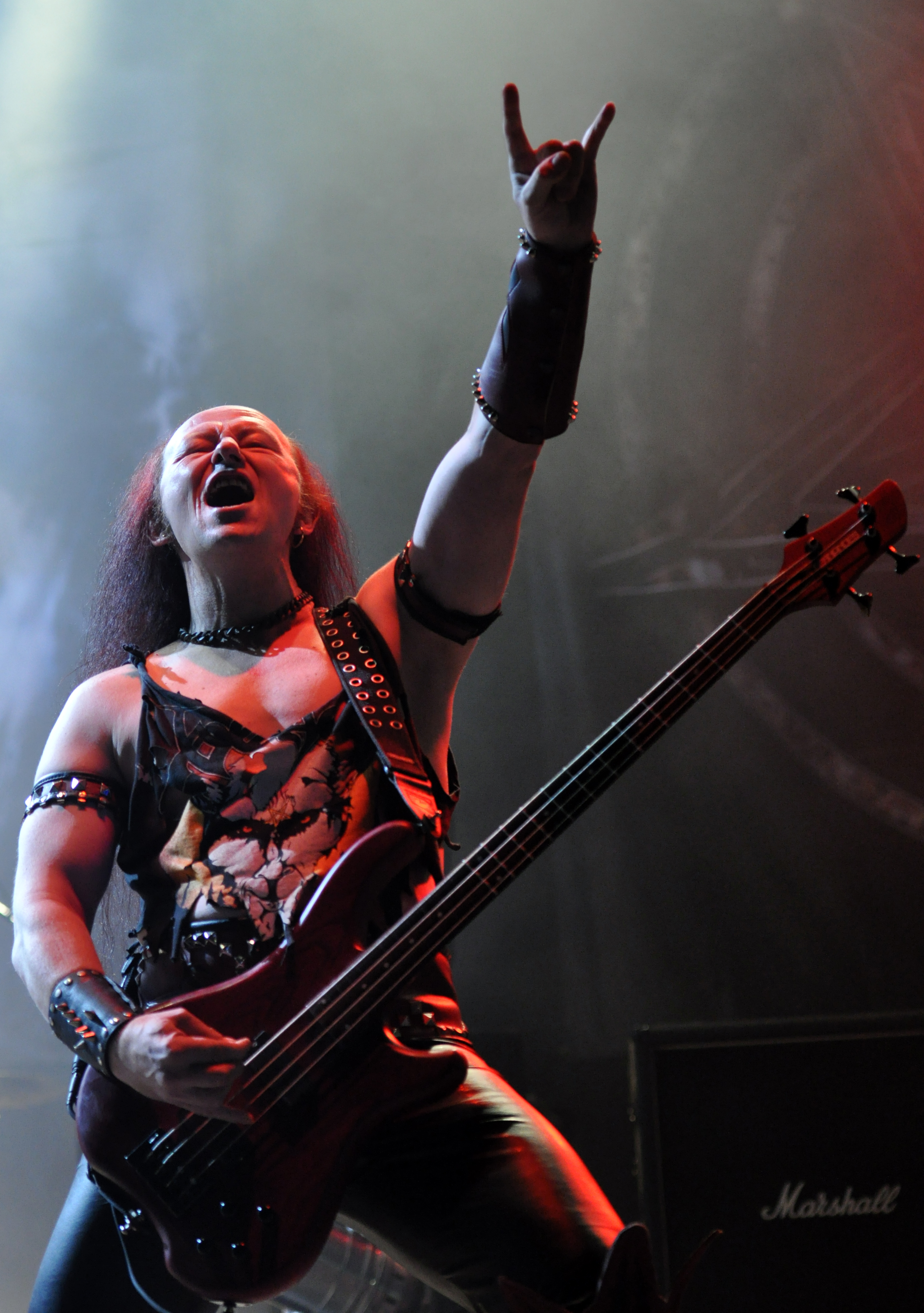 Venom at Party.San Metal Open Air 2013